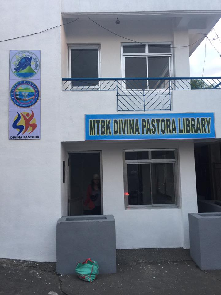 In April of 2012, Erwin Bogs Rempola and his wife Darlene Sunas Rempola and with his sister Jeanette Rempola Hodes founded the first public library in Bato, Camarines Sur, Philippines. It was named MTBK (Mga Taga Bato Kami) library and was managed by the local church. The first location was in the adjacent building of the church. In January of 2019, MTBK formed a partnership with Divina Pastora Barangay Council led by Edgar Dancalan and “Sangguniang Kabataan” led by Alyssa Nuyda to move the MTBK Library to a new location more accessible to the public. The library was moved to the old Divina Pastora Barangay Hall. As a result of the partnership, the library changed its name to MTBK Divina Pastora Library.